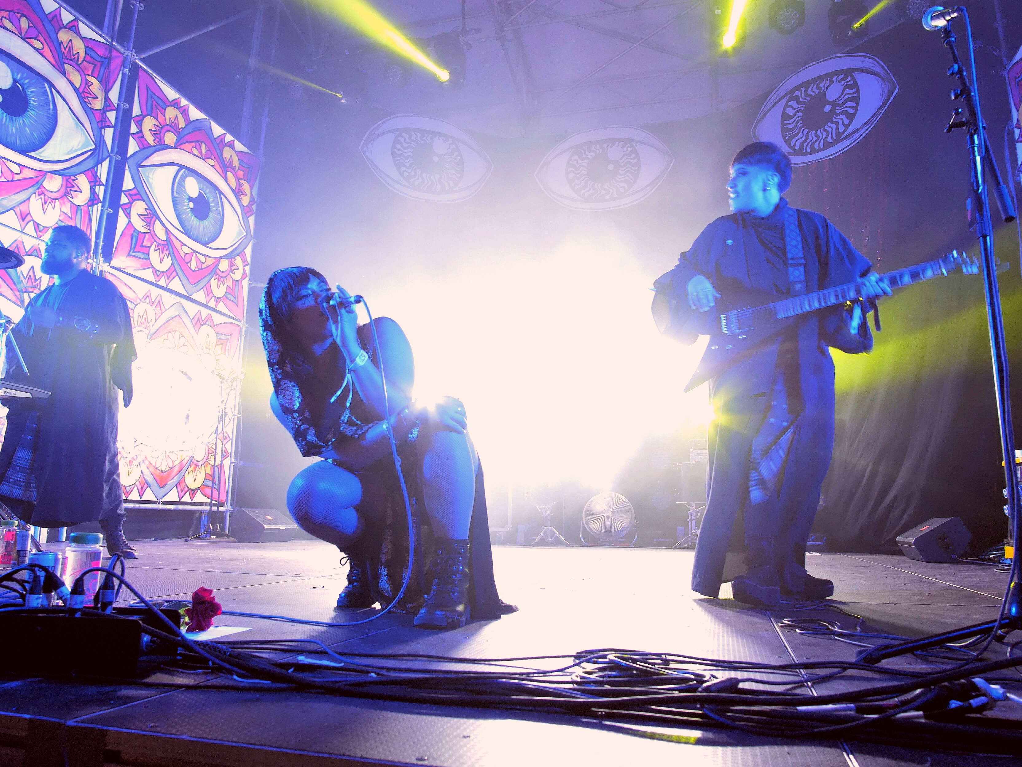 Valkyrie perfoming at Splore Festival - Main Stage